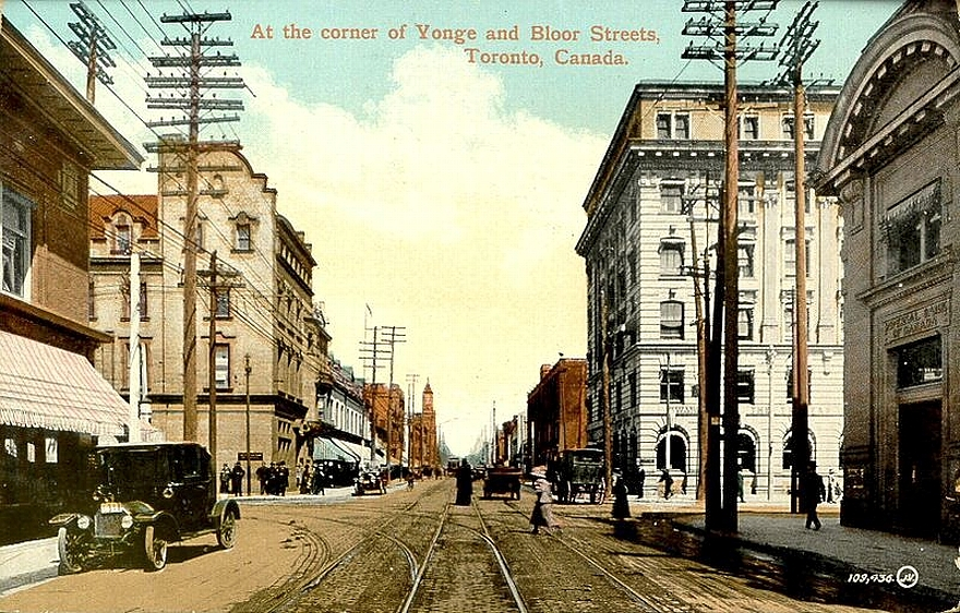 Intersection of Yonge and Bloor Streets, Toronto, Canada.